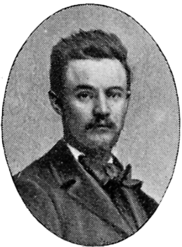 Image scanned from the book "Svenskt Porträttgalleri XX - Arkitekter, Bildhuggare, Målare m.fl. " ("Swedish Portrait Gallery XX - Architects, Sculptors, Painters, ") published 1901